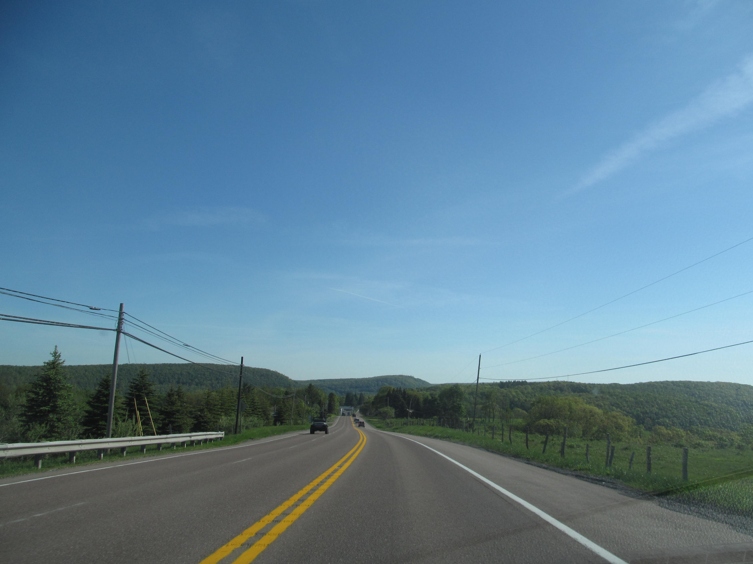 U.S. Route 219 north of Oakland, Maryland.